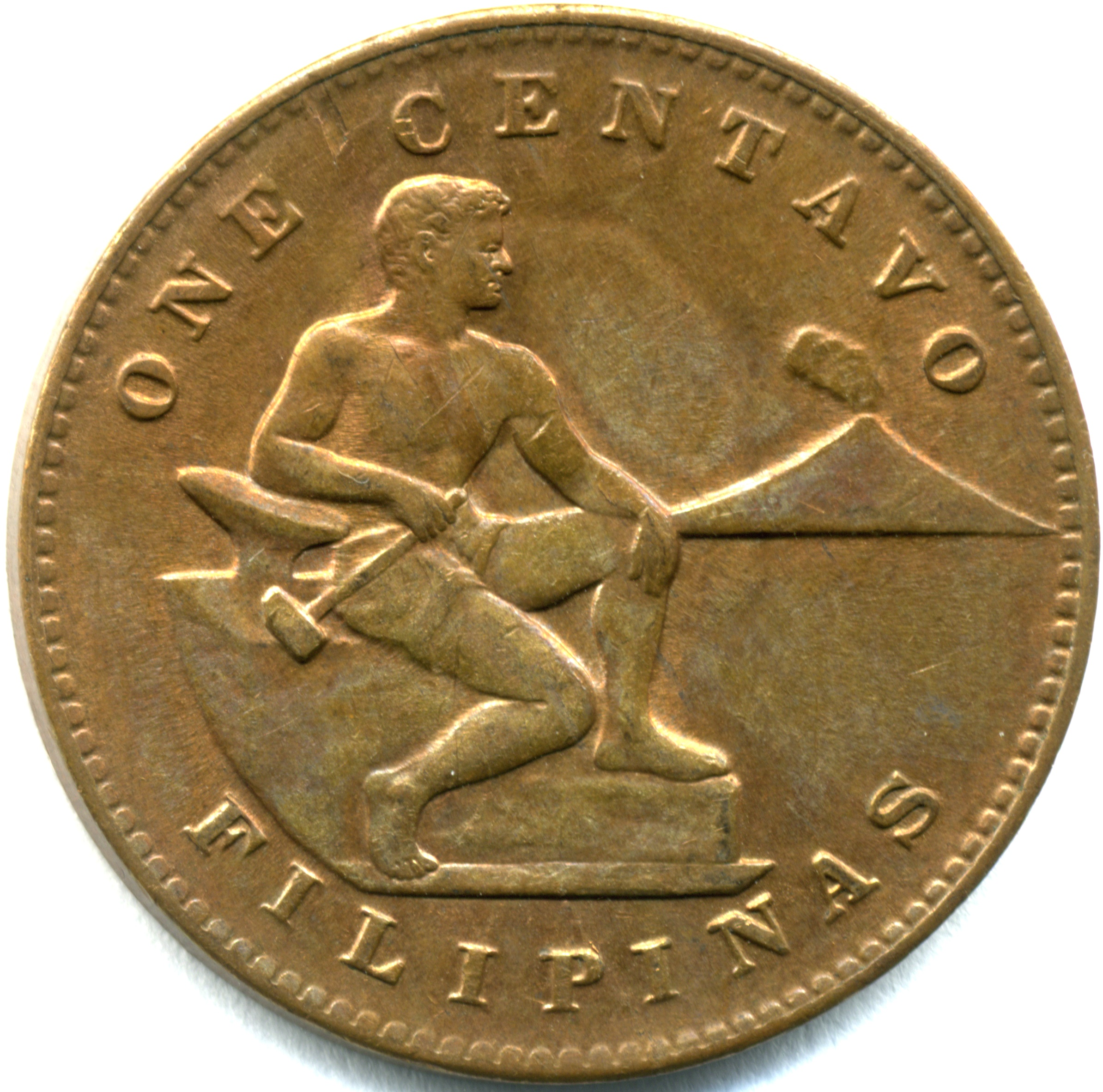 1944 Philippines one Centavo obverse